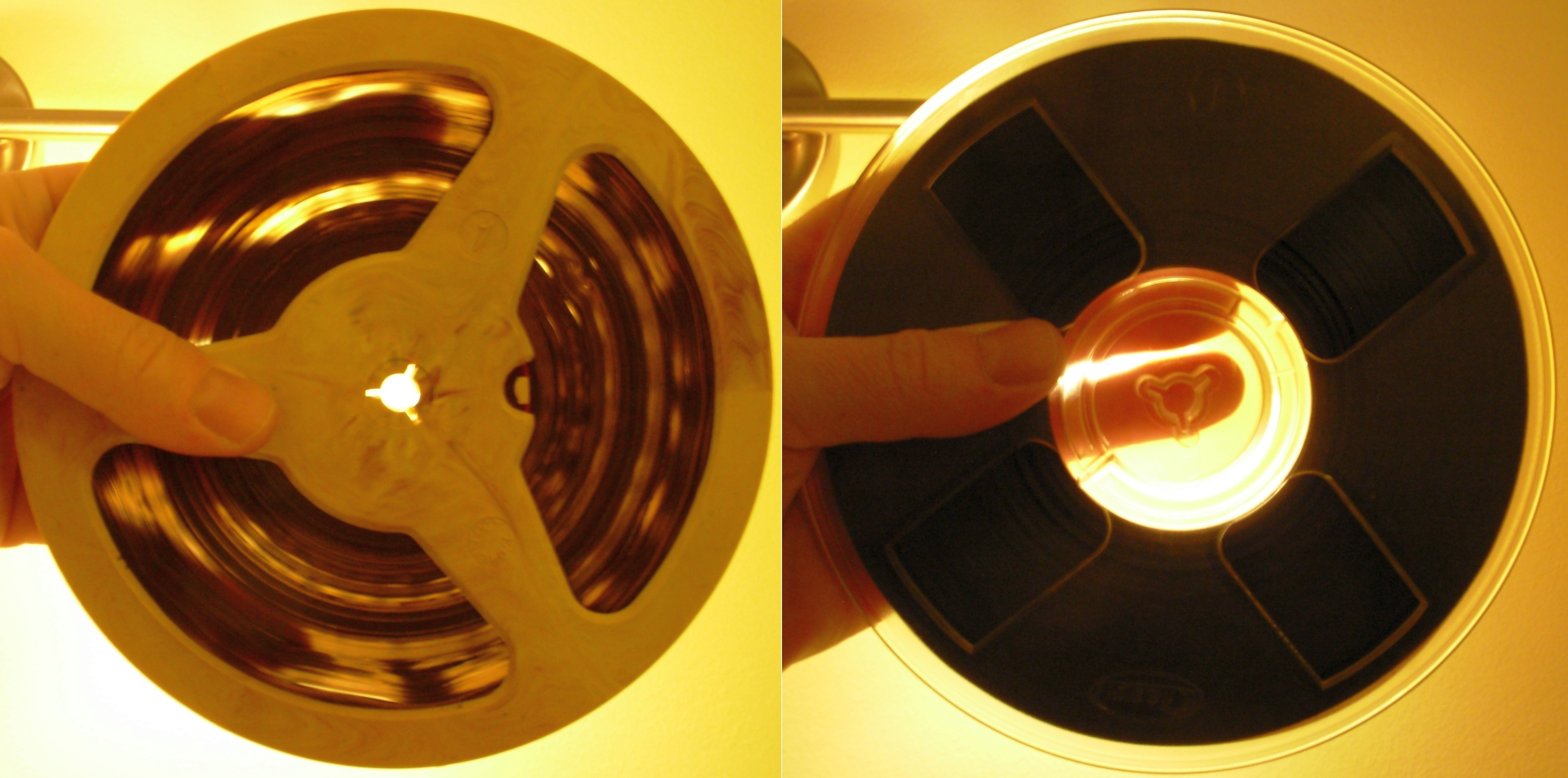 Magnetic audio reel-to-reel tapes: acetate backing (on the left) and polyester backing. Light can be seen coming through the tape windings of the tape with acetate backing. Acetate backing is chemically less stable than polyester backing.